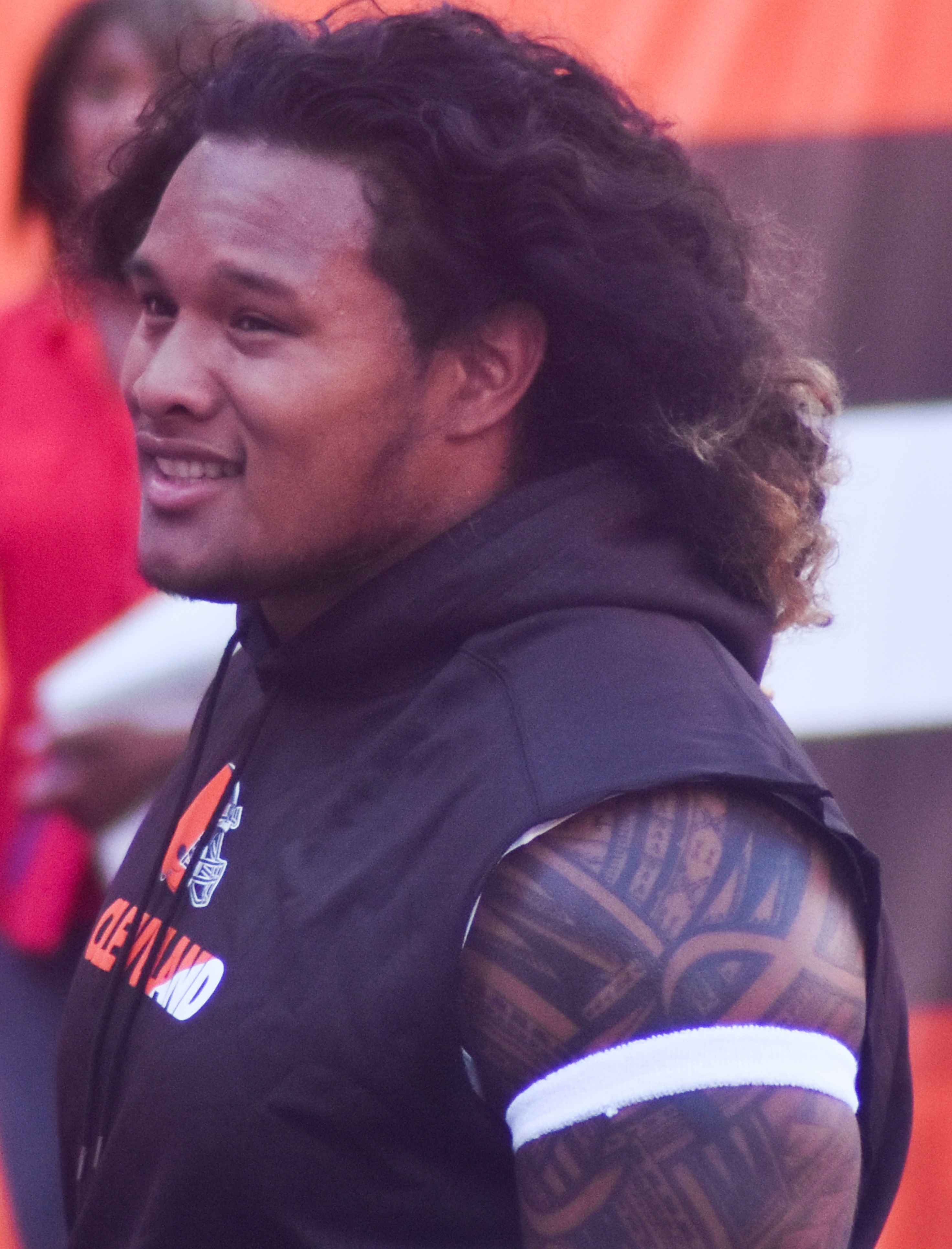 Browns vs Bills 2015